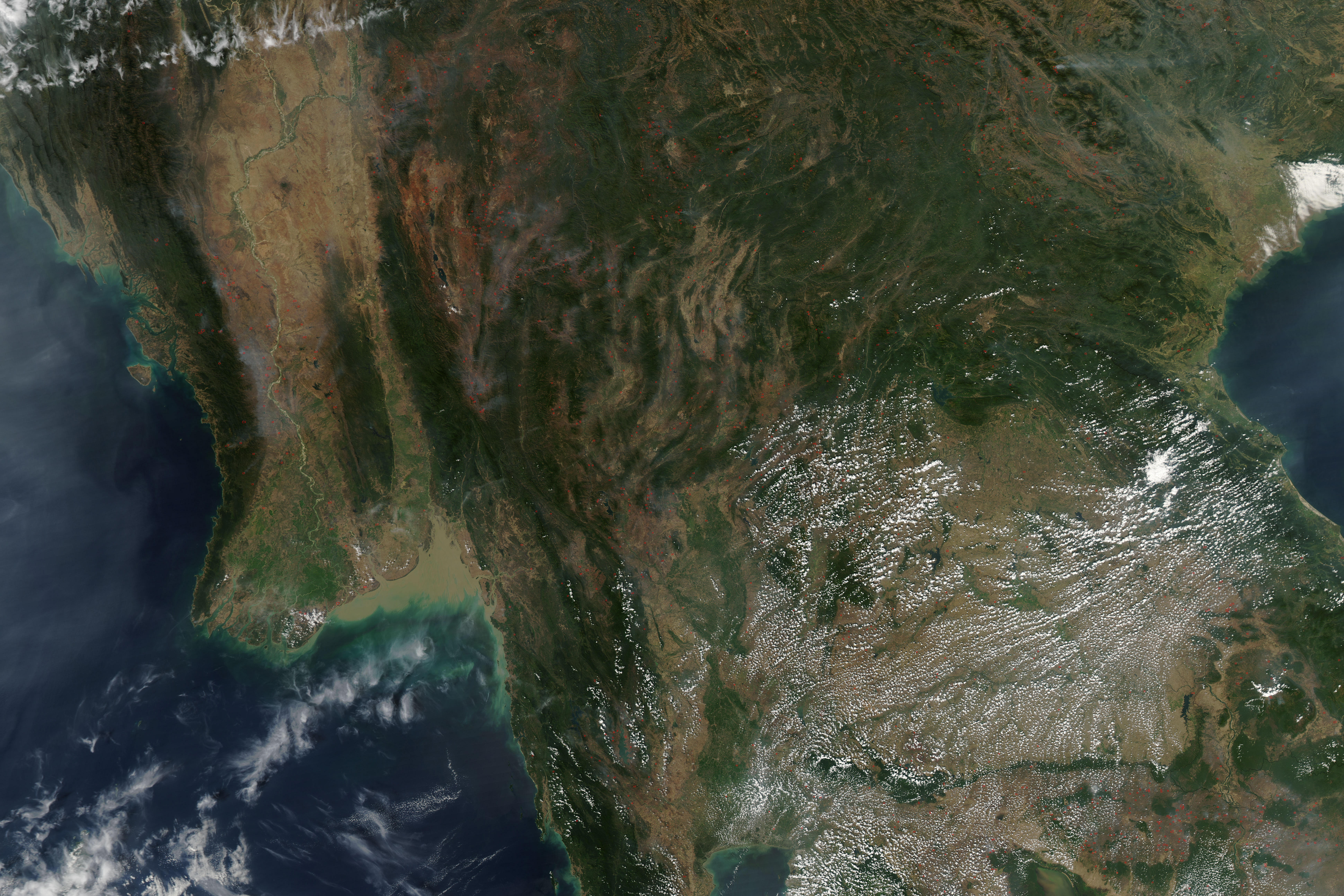 In the first months of the year, it is not uncommon for satellites to capture sights such as the one shown in this image: hundreds of active fires burning across the hills and valleys of Myanmar, Thailand, Laos, and Vietnam. (Fires are also present in southern China and Cambodia, are visible. The satellite detects fires not from visible smoke plumes, but from thermal infra-red energy radiating from the surface. The heat energy is invisible in images like this, but the locations where the satellite detected fires are labelled with red dots.